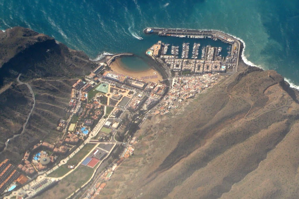 Puerto_De_Mogan